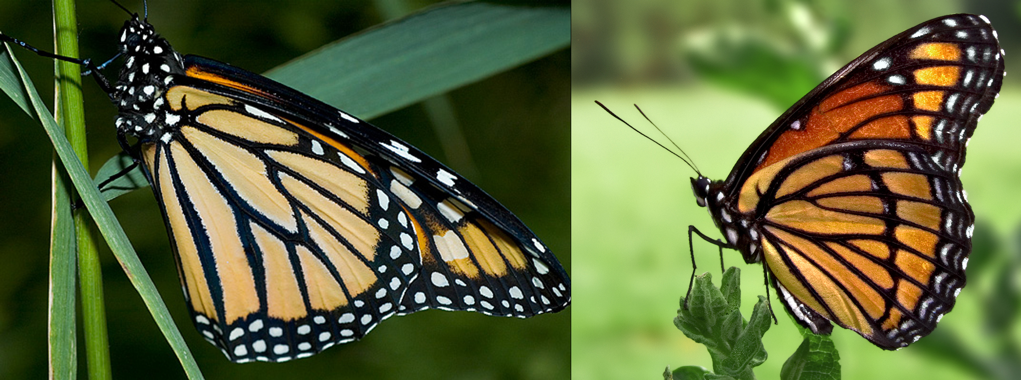 This image is a combination of two images used to compare the markings of the Monarch (Danaus plexippus en ) and Viceroy (Limenitis archippus en ) butterflies.